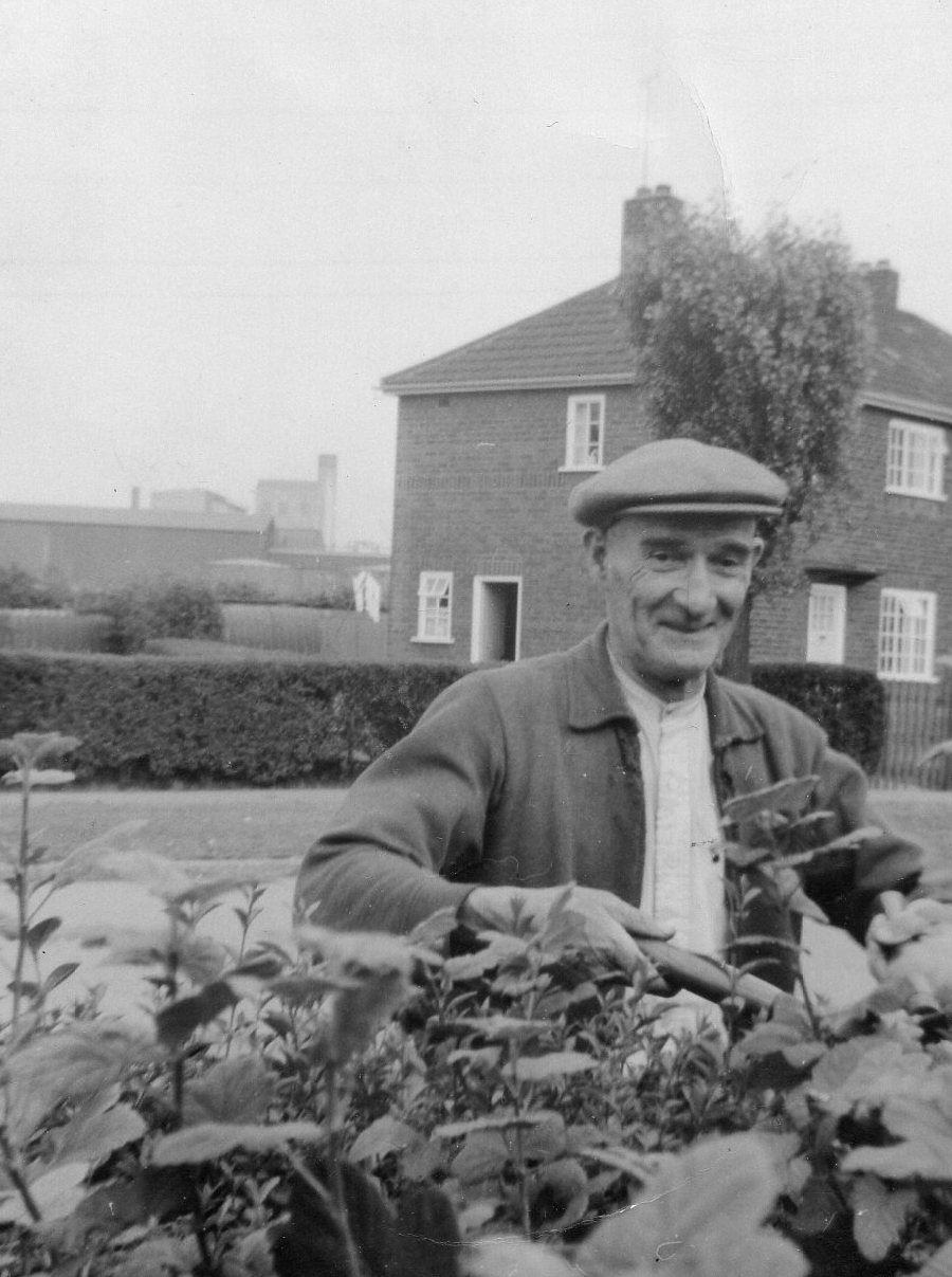 A family photograph of George Thompson Reay in his retirement.